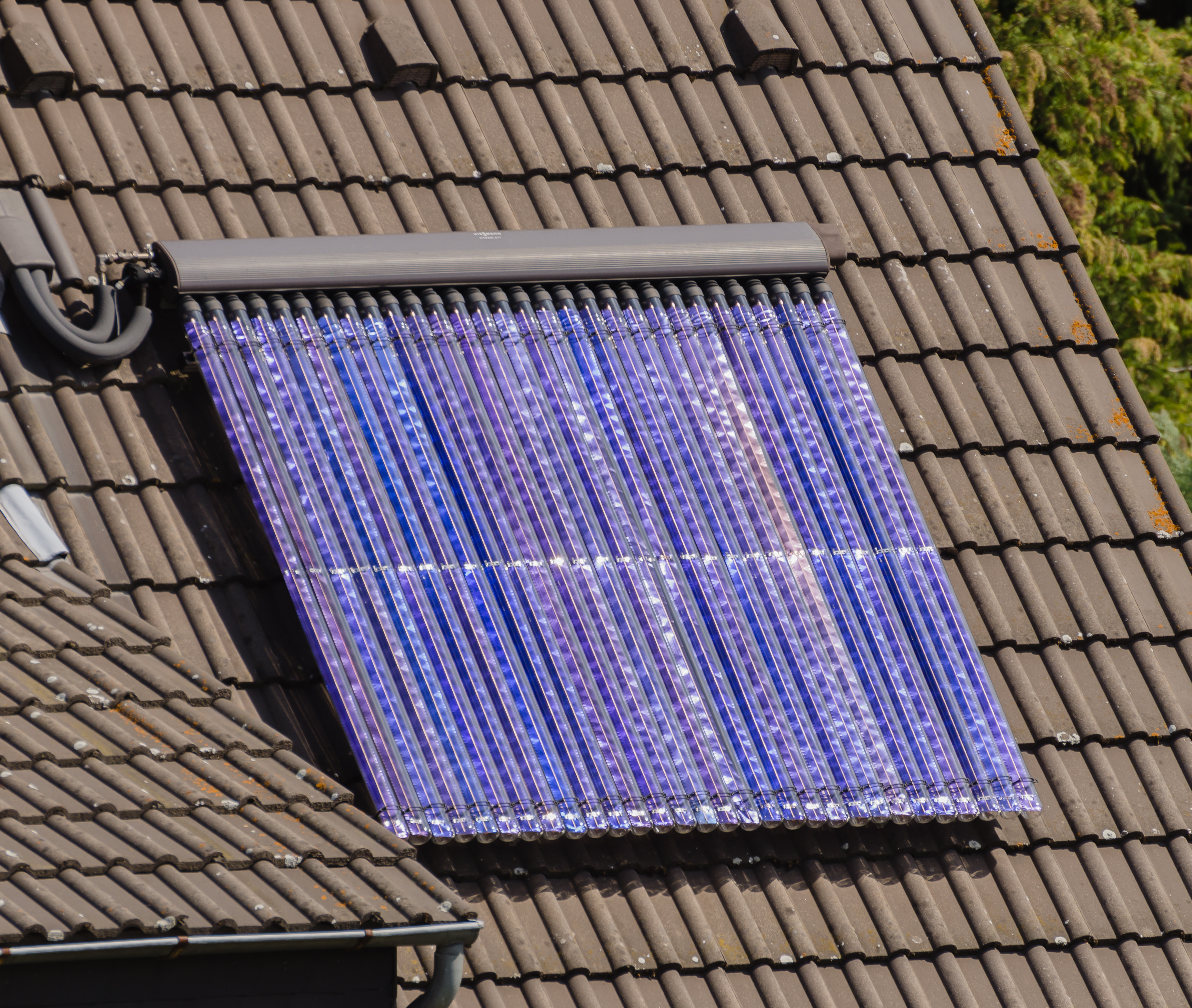 Solar heating system on on a roof of a residential building in Mörfelden-Walldorf, Hesse, Germany.